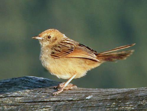 A Wailing Cisticola at Cedara, KwaZulu-Natal, South Africa.